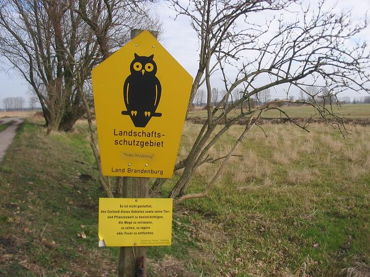 Sign landscape conservation area „Notte-Niederung“ in Löwenbruch. The village Löwenbruch is a part of the town Ludwigsfelde in the district Teltow-Fläming, state Brandenburg, Germany.